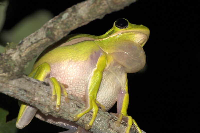 American green tree frog (Hyla cinerea), with distended vocal sac